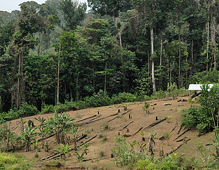 Culture sur abattis Guyane MASSEMIN 2011